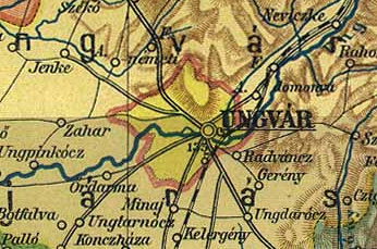 Map of Uzhhorod.